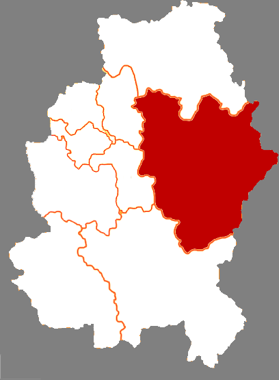 Location of Jiaohecity in Jilin City, China